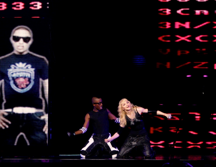 Madonna performing "Give It 2 Me", as Pharrell Williams appear on the screen